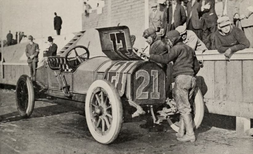 Ray Harroun at the Atlanta race in 1910, on page 9 of the January 1913 Camera Craft.